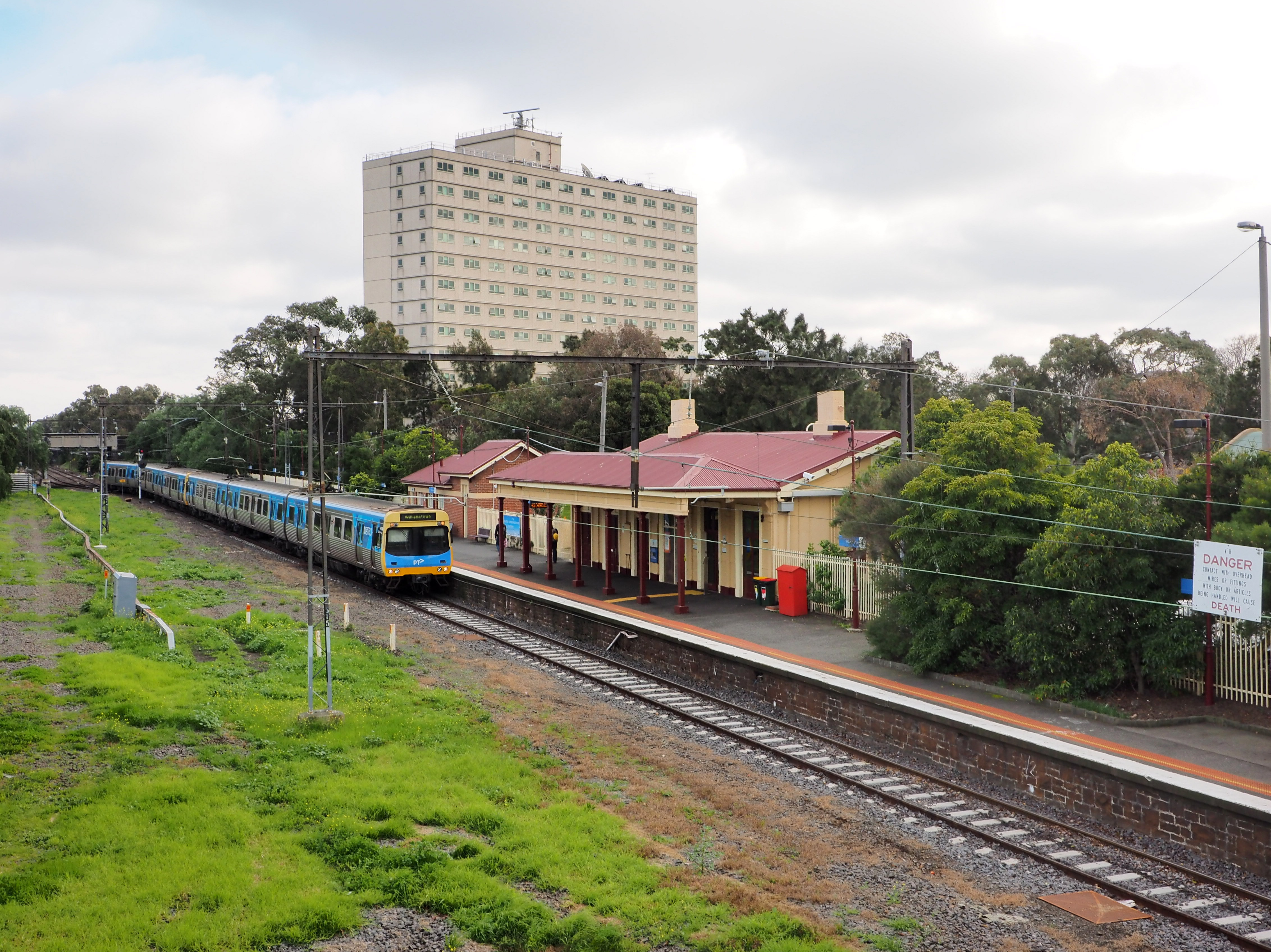 A train pulling into Williamstown Station